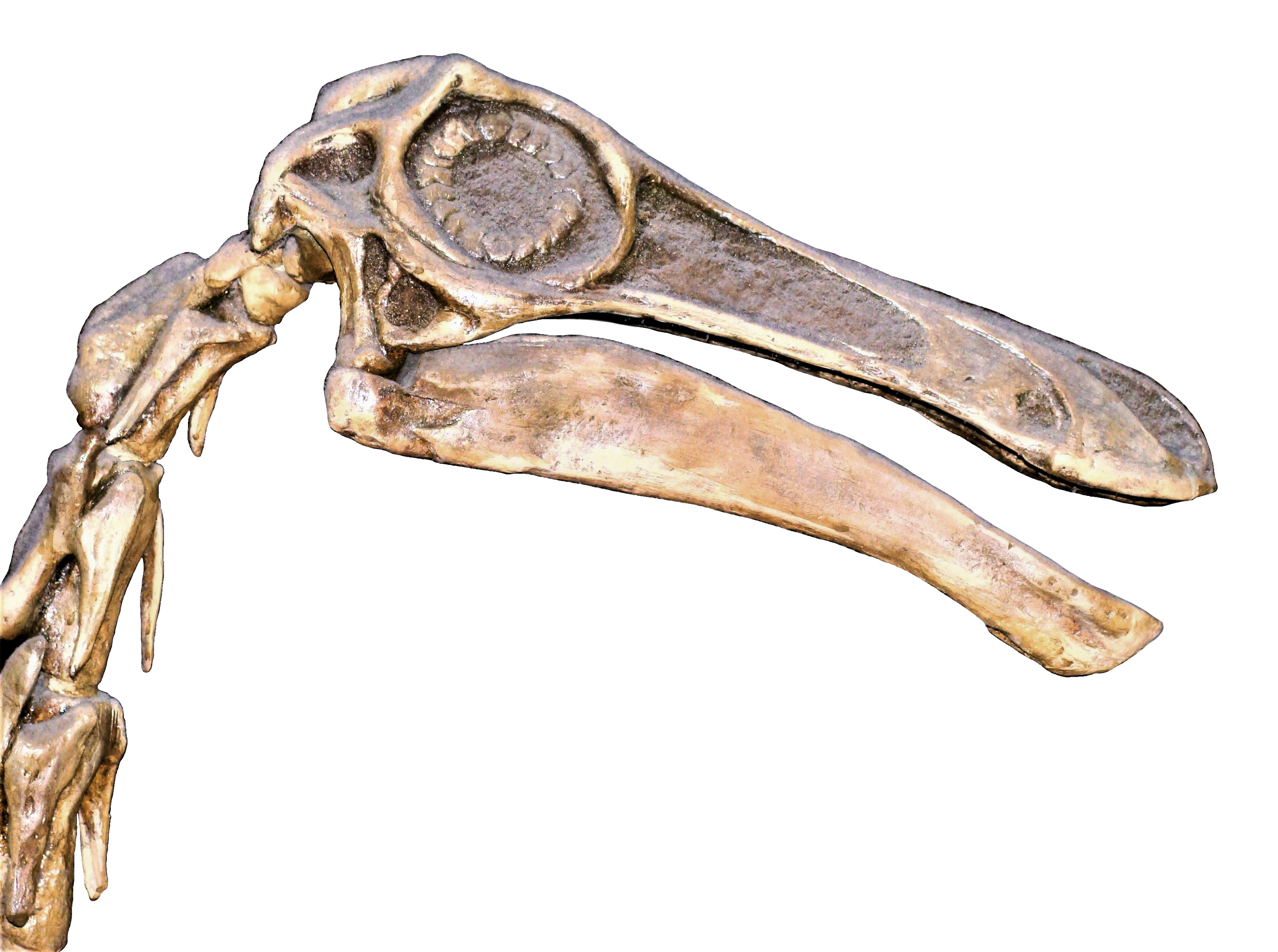 Gallimimus bullatus in the Natural History Museum of London